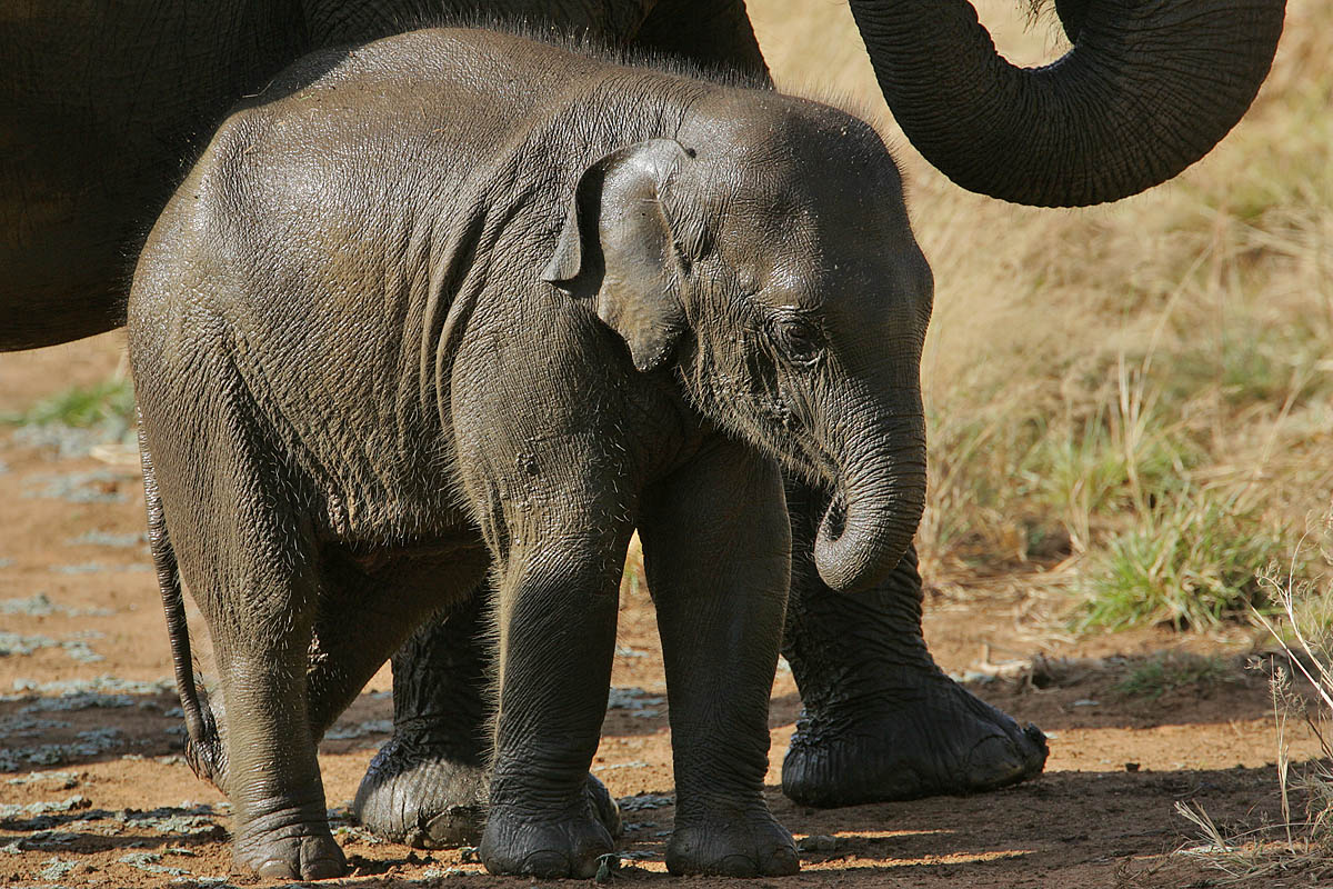 The Sri Lankan race of the Asian Elephant is the type of the species and one of the largest subspecies. Like all Asian Elephants the young are quite hairy. Image taken in Uda Walawe National Park, Sri Lanka.